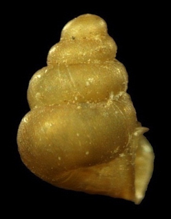 Photo of a left lateral view of a shell of Bensonella plicidens.